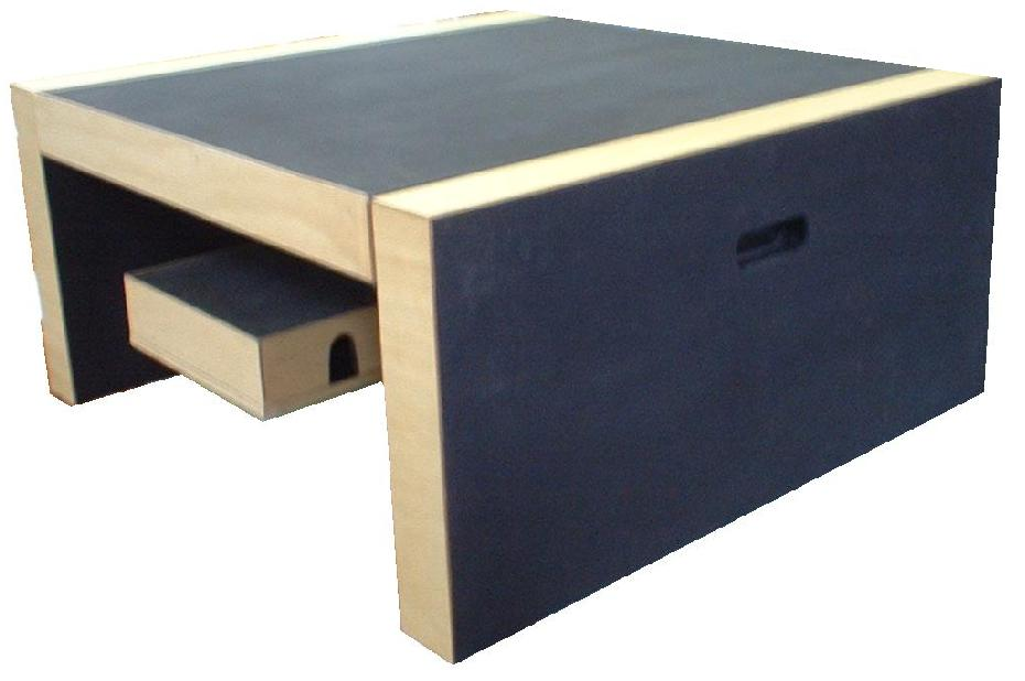 Photograph of a coffee table with the background removed to be used as a reference for a 3D model.